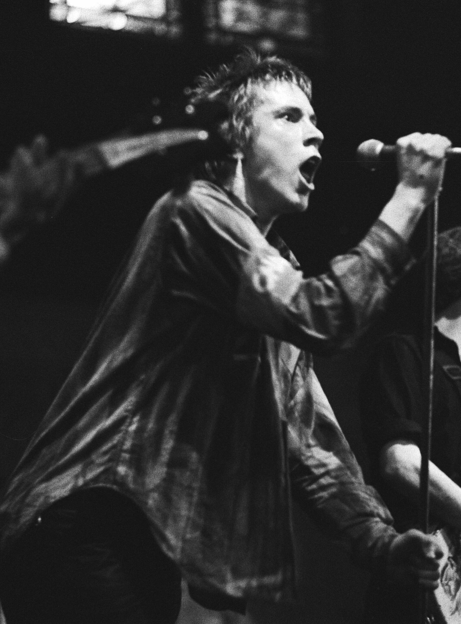 Sex Pistols perform in Paradiso, Amsterdam.